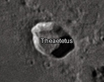 Theaetetus lunar crater as seen from Earth with satellite craters labeled